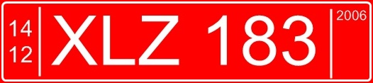 Swedish temporary plate